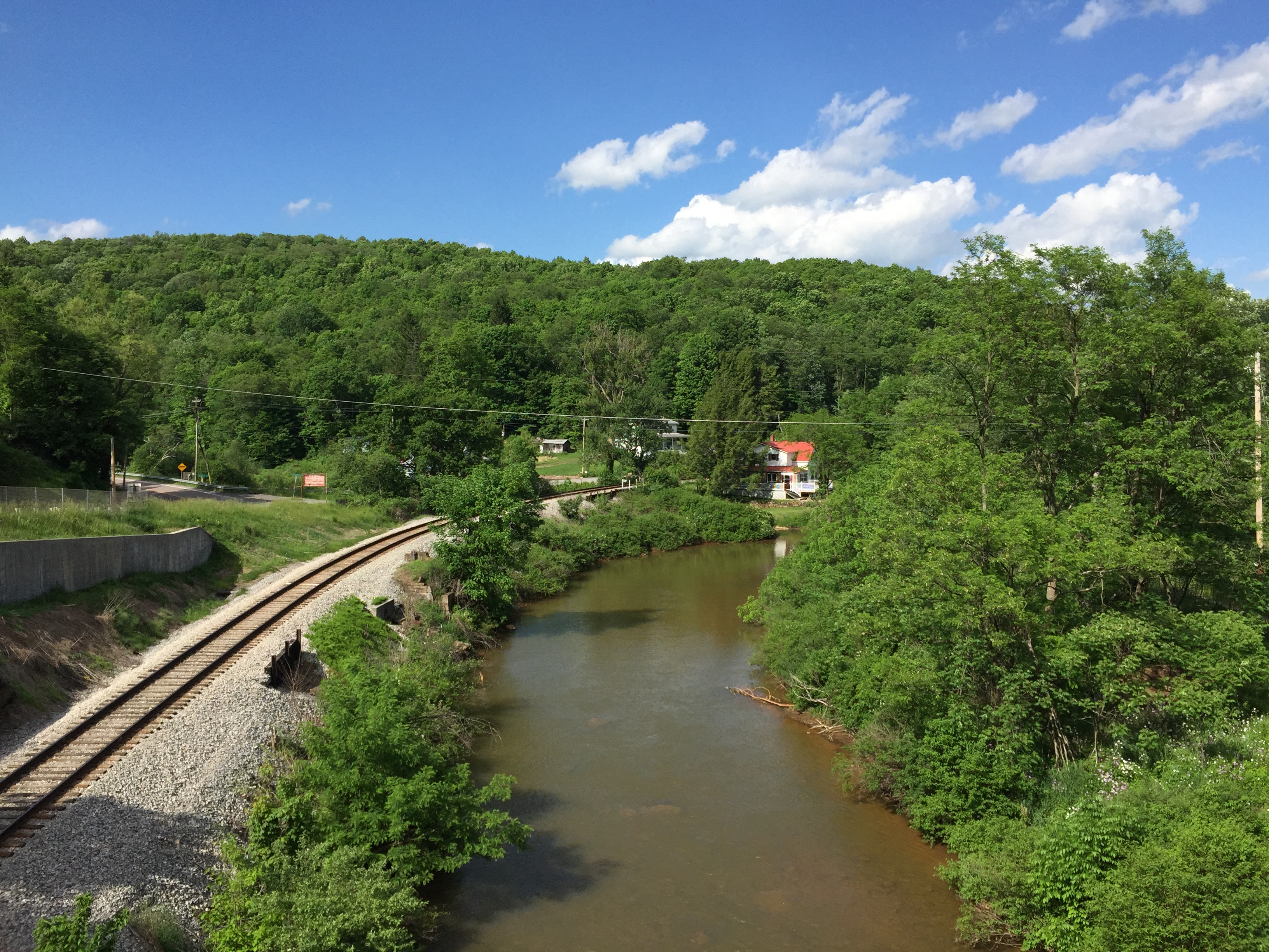 View northeast down the North Branch Potomac River from the Gorman-Gormania Bridge (U.S. Route 50) between Gormania, Grant County, West Virginia and Gorman, Garrett County, Maryland